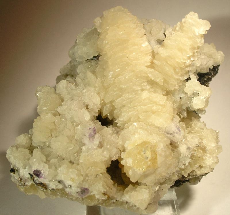 Benstonite, Sphalerite, Fluorite Locality: Mahoning No. 1 Mine (Minerva No. 1 Mine), Ozark-Mahoning Group, Cave-in-Rock Sub-District, Illinois - Kentucky Fluorspar District, Hardin County, Illinois, USA (Locality at ) A large and showy specimen covered all around with pagoda-like towers of benstonite! This piece is amazingly, nearly pristine. It is one of the largest benstonite specimens I have ever seen for sale, and is certainly the richest in terms of coverage. The pedigree is an added bonus. 7.5 x 6.5 x 6 cm